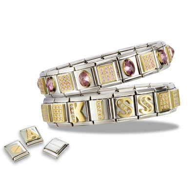 Composable Bracelets